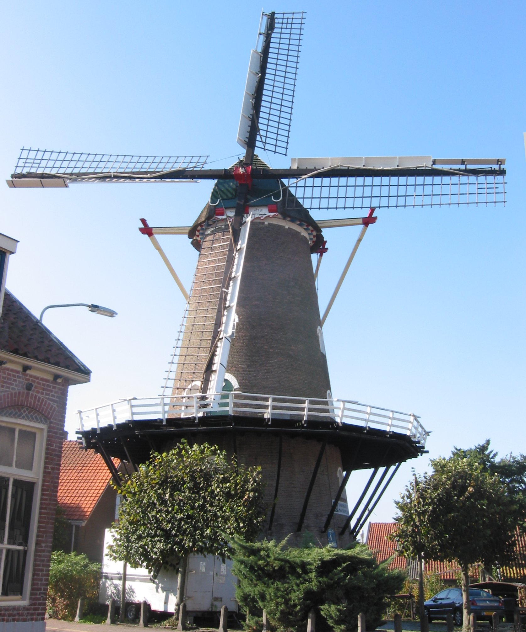 Windmill